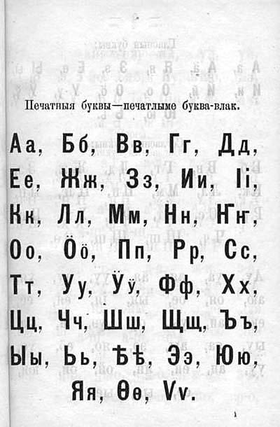 Mari alphabet from 1887 book